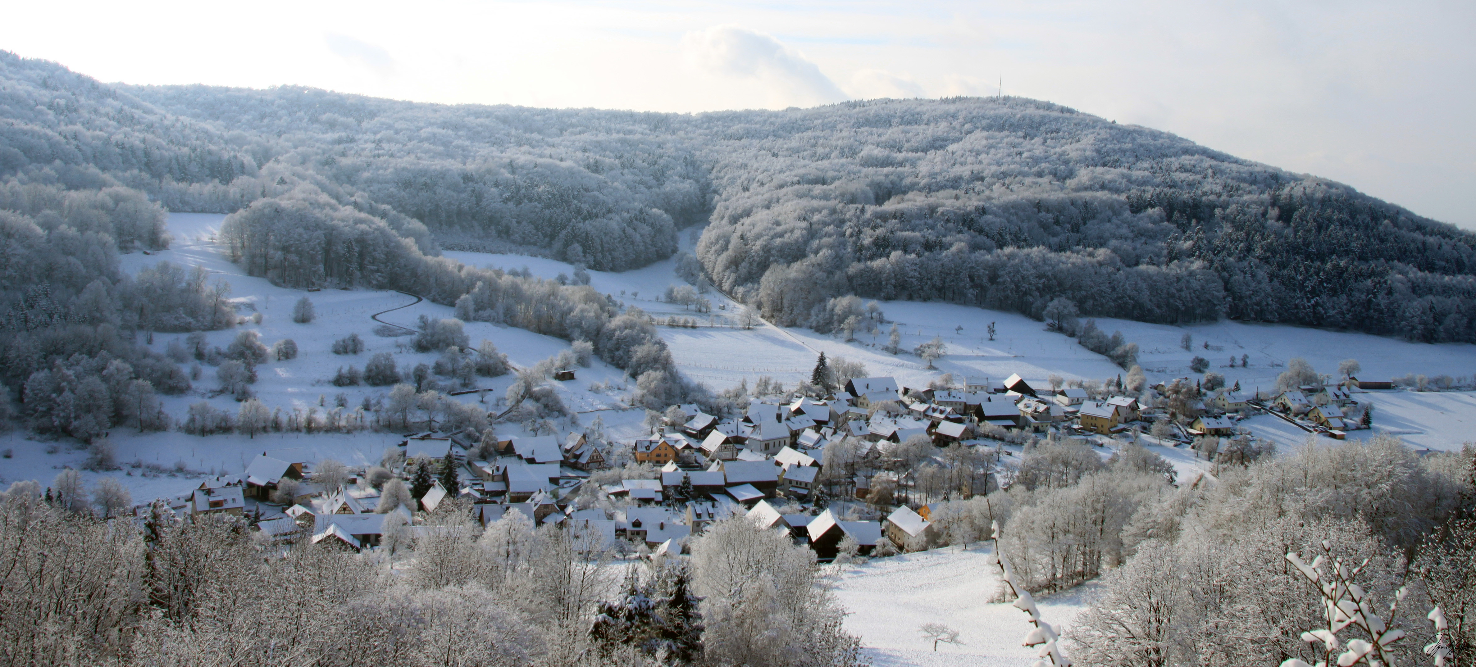 Burglesau